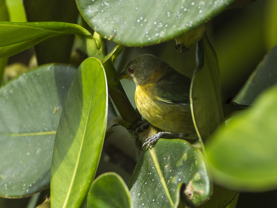 Golden-collared Honeycreeper fem - Colombia_S4E3137